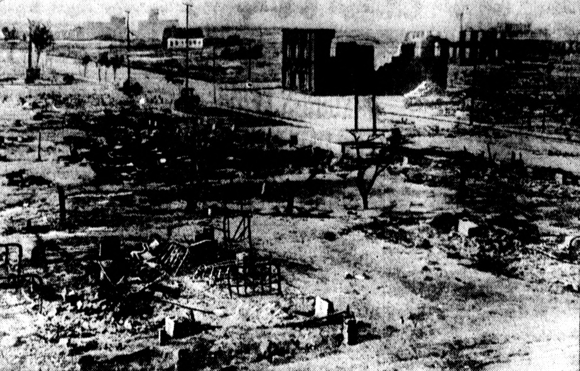 Tulsa race riot, original caption: The above picture, the first received from Tulsa, Okla., since the destructive race riots there, shows the havoc wrought in the Negro residential section of the city. More than ten blocks of Negro homes were burned to the ground. Thirty persons were killed in the riots, it is estimated.